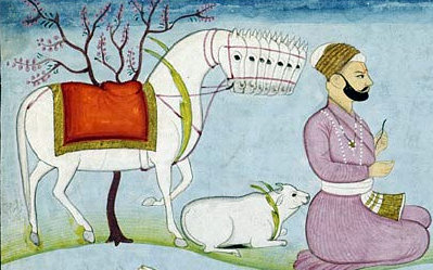 Kamadhenu, Uchchaisravas, parijata